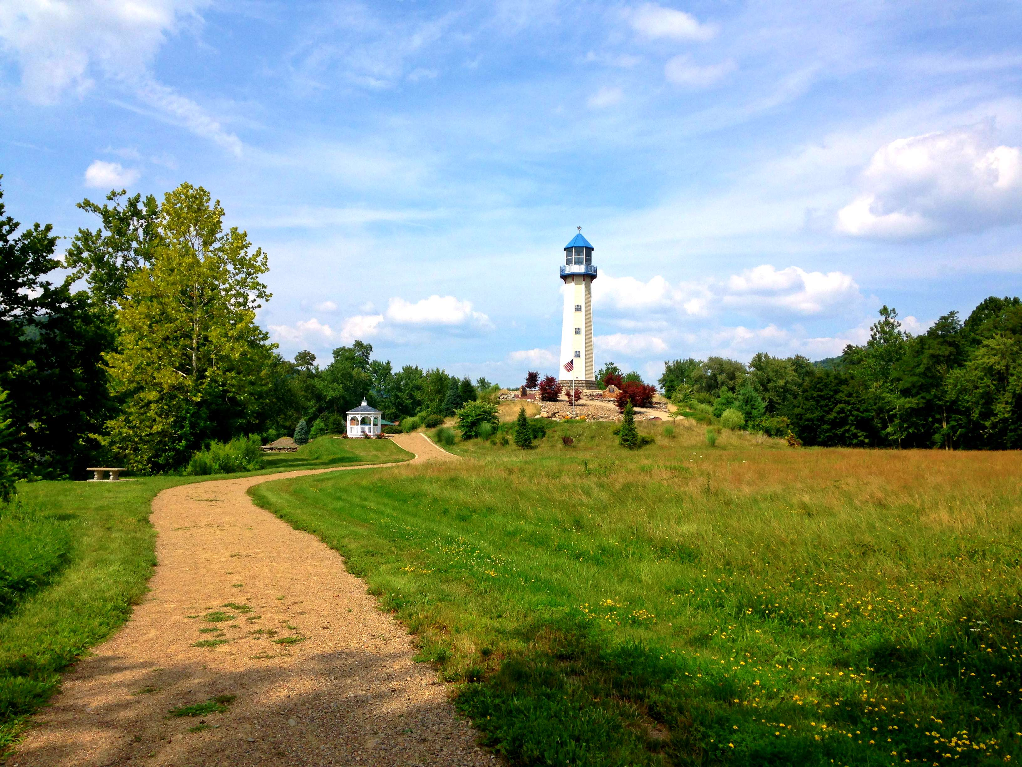 The Sherman Memorial Lighthouse, located on a 22.5-acre island in the Allegheny River, about 60 miles southeast of Erie. It opened in time to help the Forest County community of Tionesta celebrate its 150th birthday.